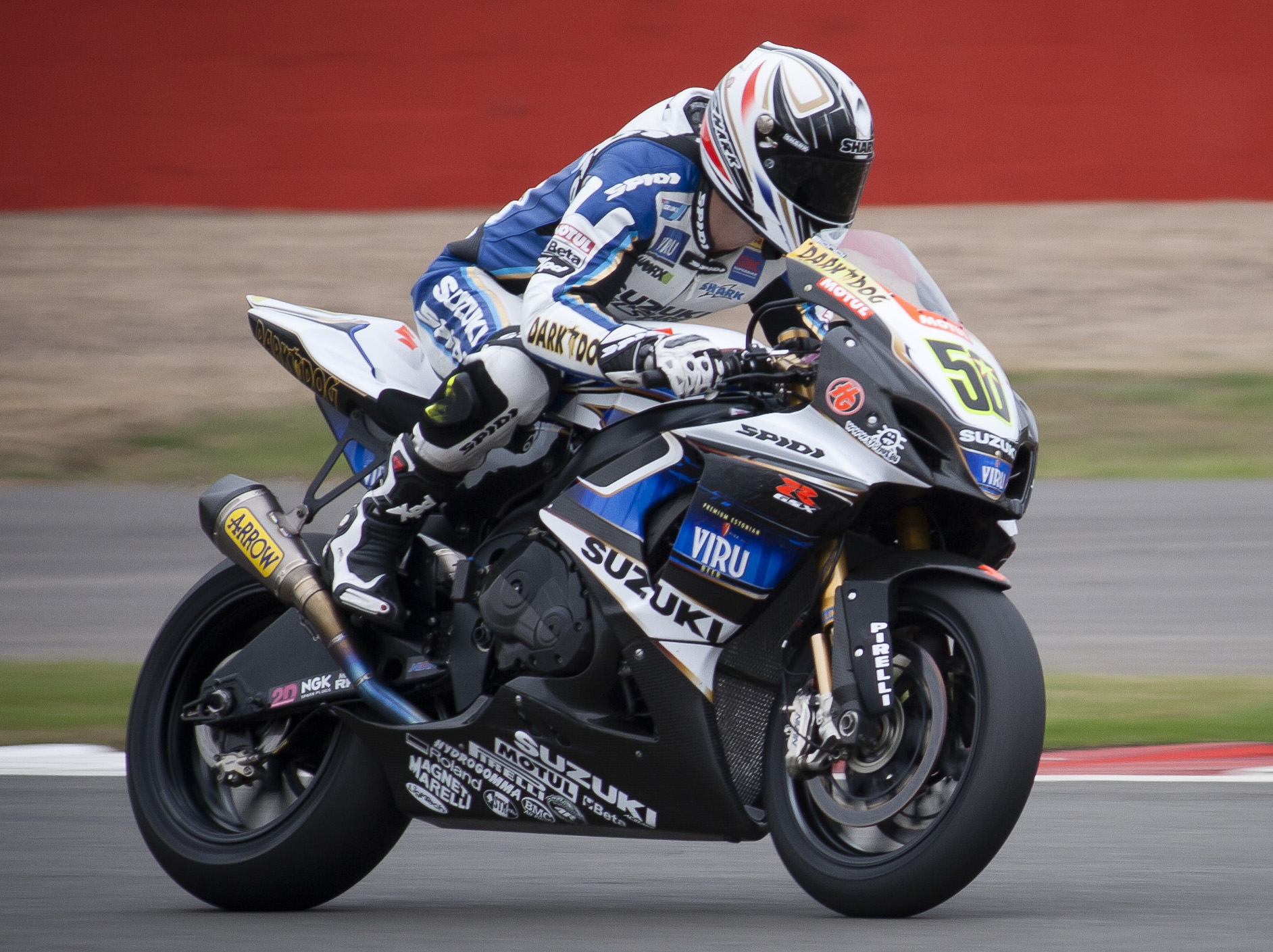 Sylvain Guintoli 2010 SBK Silverstone